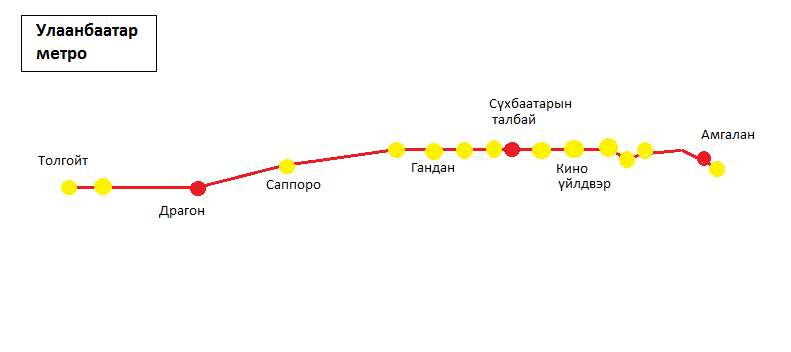 Ulaanbaatar Subway Plan per